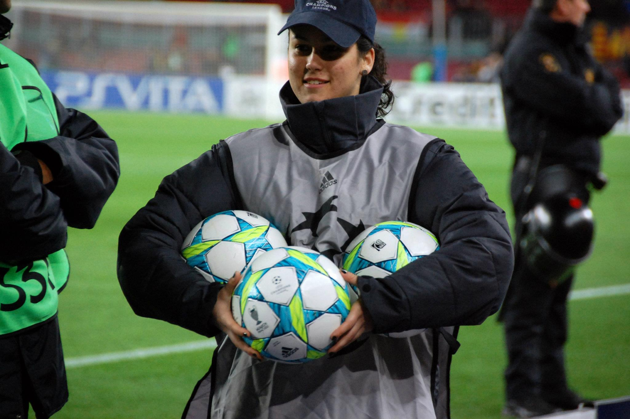 FC Barcelona - Bayer 04 Leverkusen, 1/8 Final UEFA Champions League, Season 2011/2012